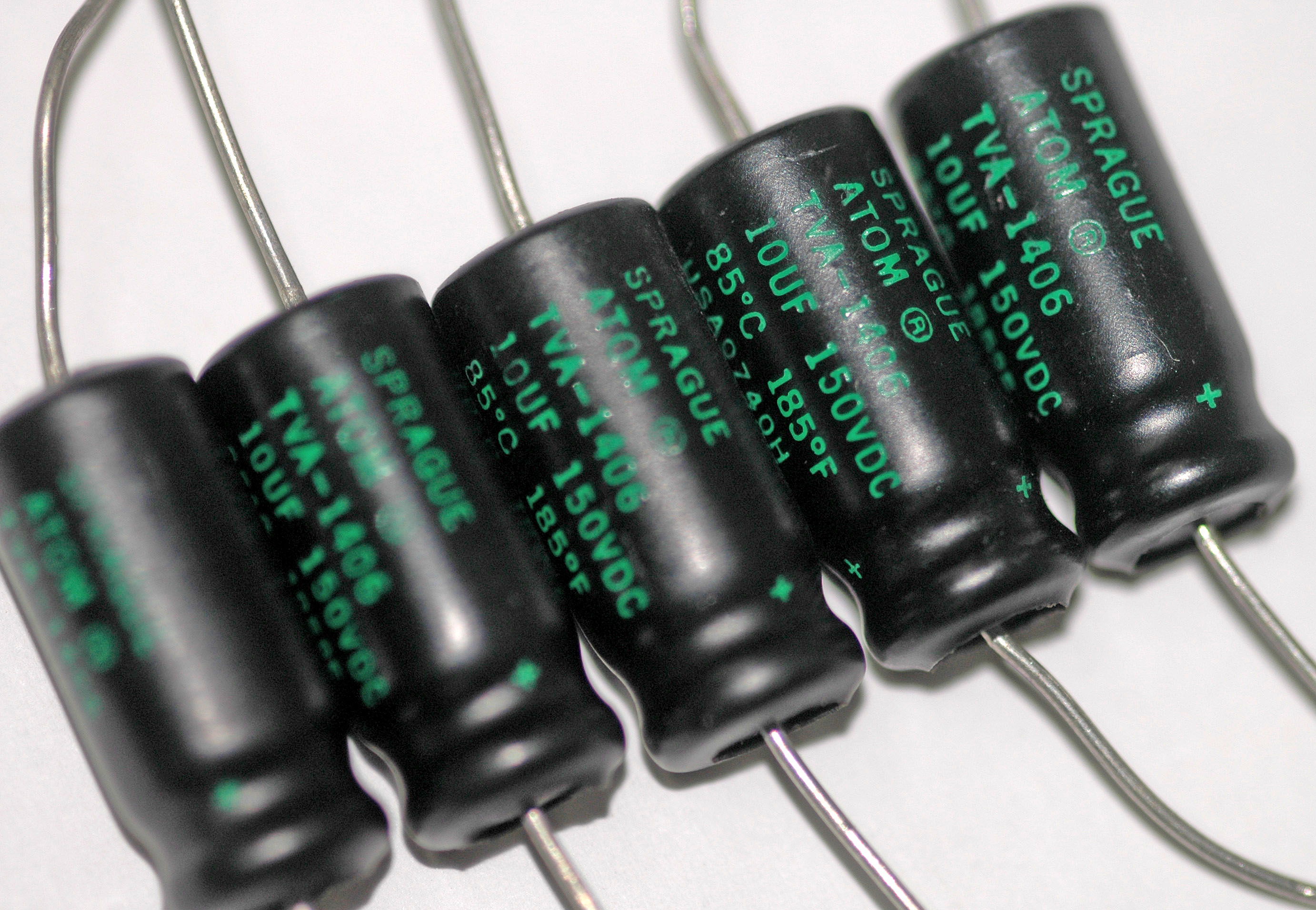 Axial electrolytic capacitors, model Sprague Atom, rated at 10uF x 150 VDC